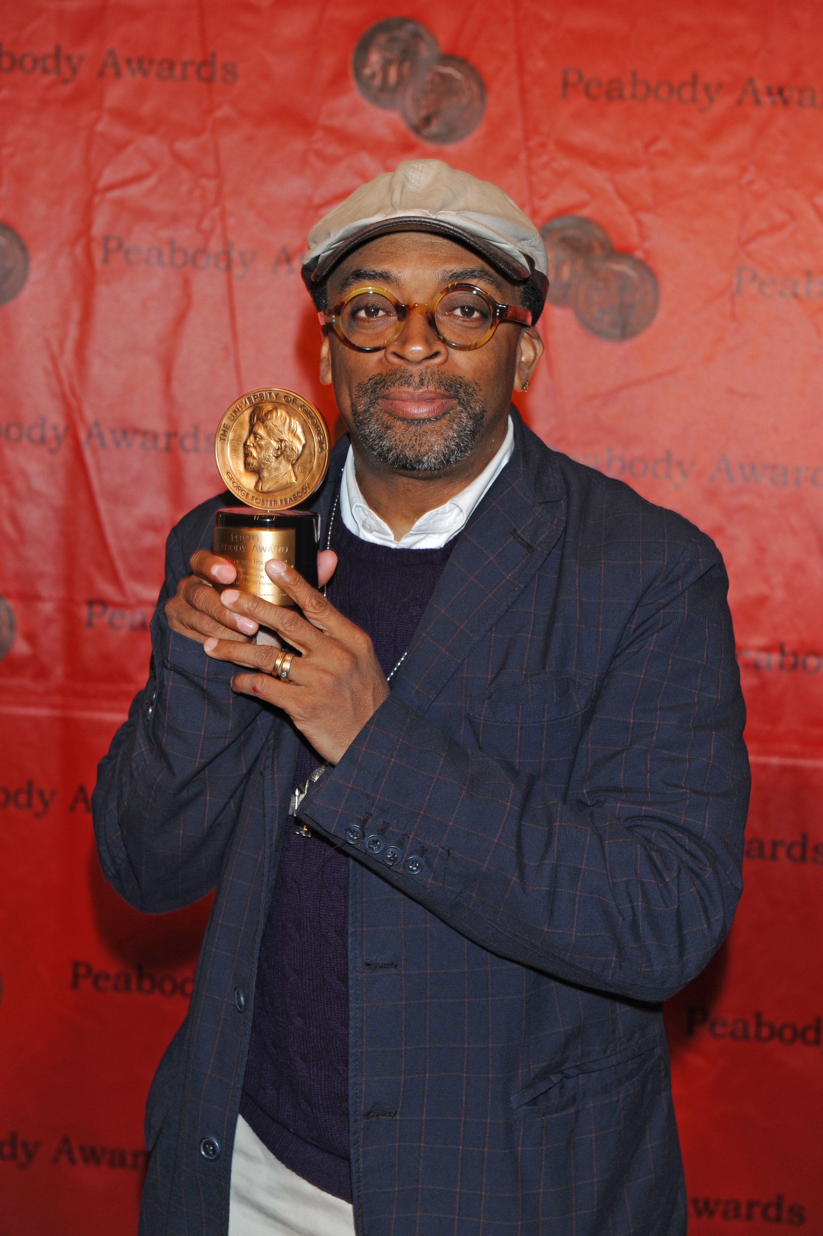 PHOTO CREDIT: ANDERS KRUSBERG / PEABODY AWARDS 70th Annual Peabody Awards Luncheon Waldorf=Astoria Hotel May 23, 2011